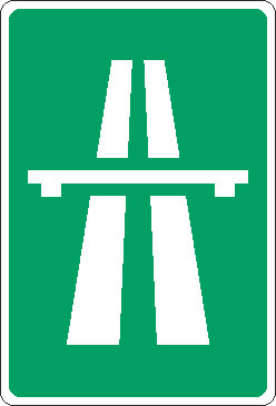 Road sign informing drivers they are driving on North Macedonian Avtopat